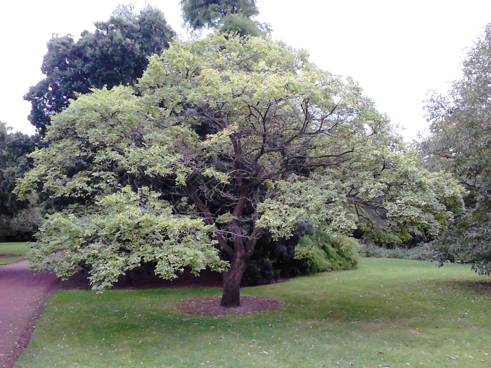 Hemiptelea davidii. Royal Botanic Gardens, Edinburgh